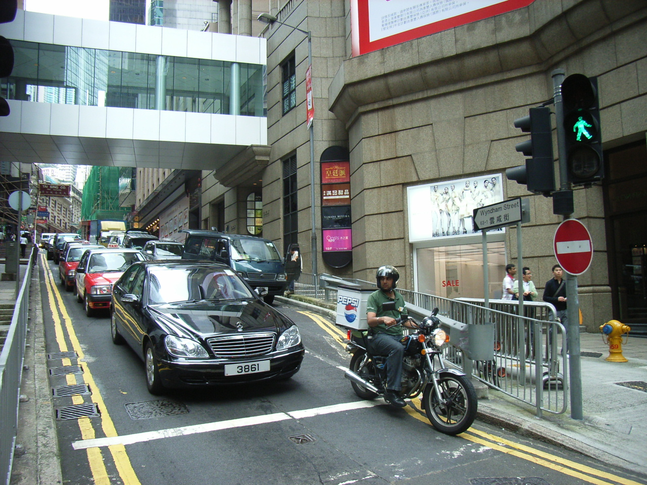 雲咸街 Wyndham Street, Central, Hong Kong. by TangHon Lower part of the Entertainment Building can be seen on the right.